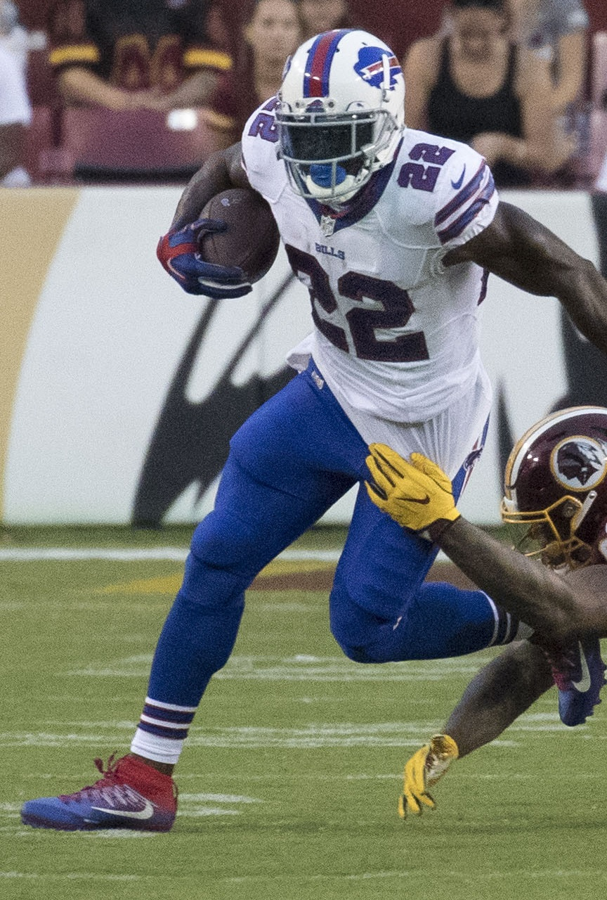 Bills at Redskins 8/26/16